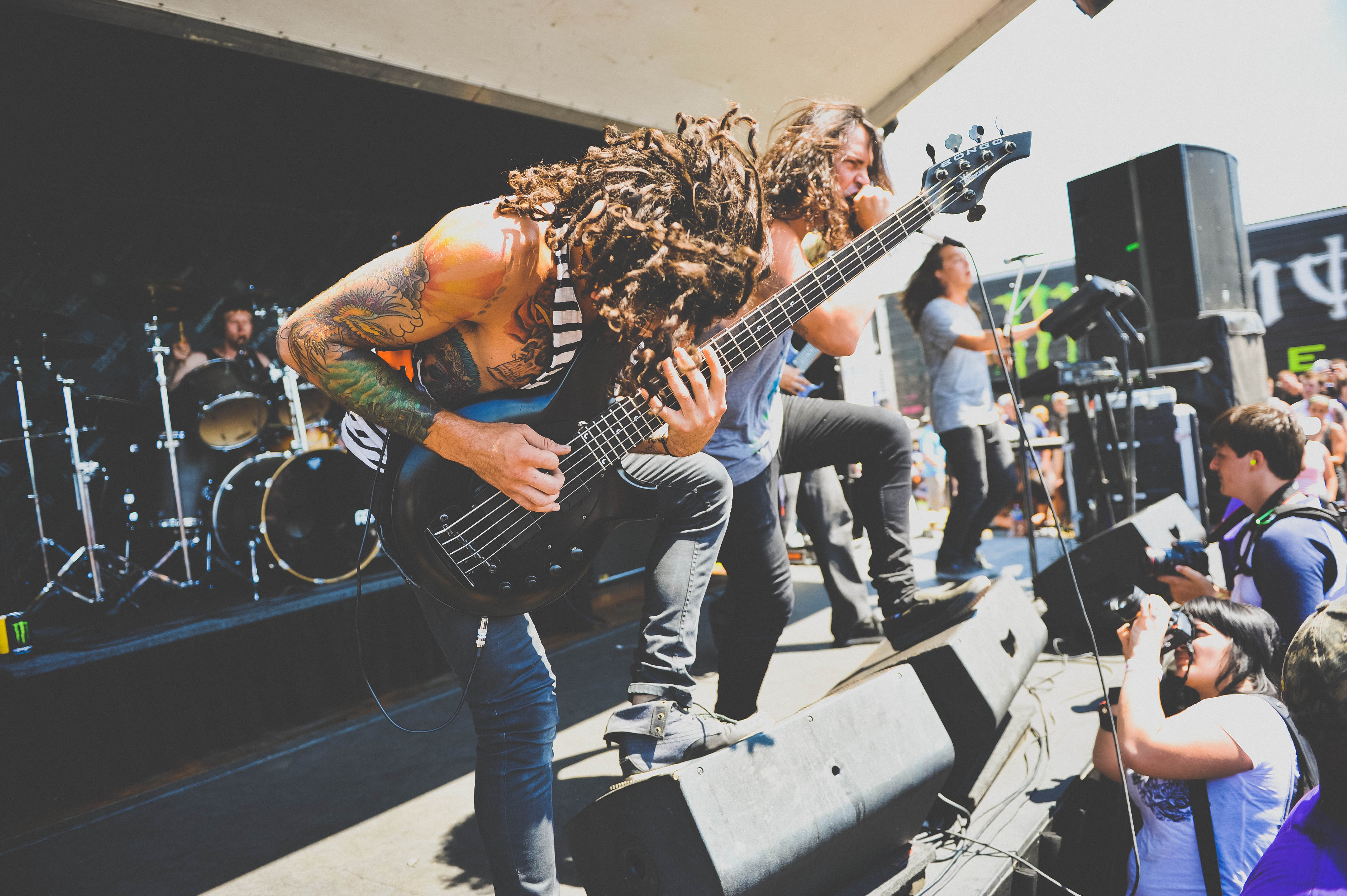 Born of Osiris at the Vans Warped Tour in Shakopee, MN in 2012.